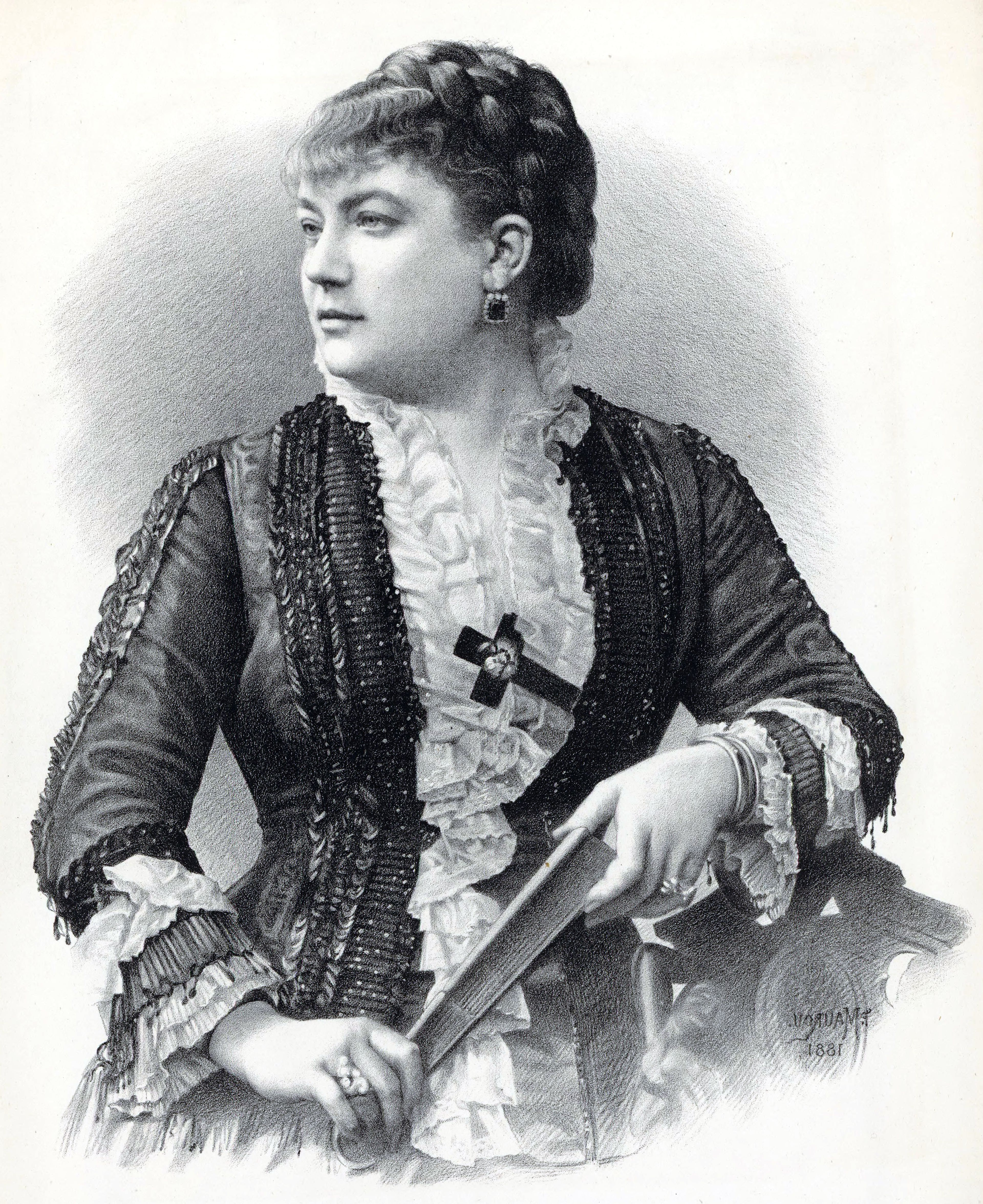 Belgian soprano Marie Sasse (1834-1907). [Note: The image has been modified from the original. It has been reversed left to right.]